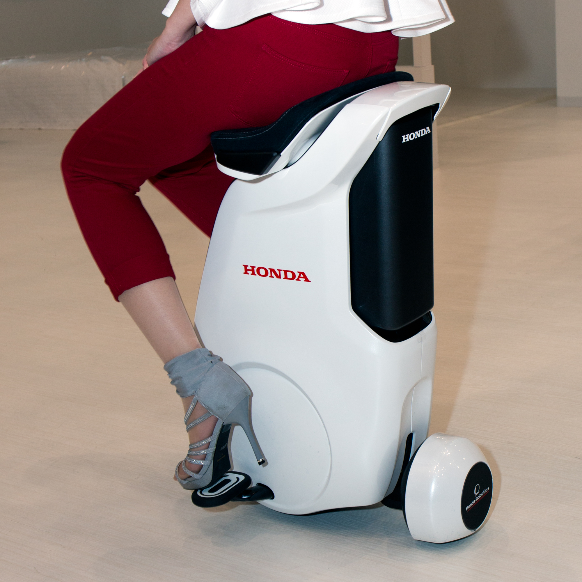 Tokyo Motor Show 2013: Honda UNI-CUB